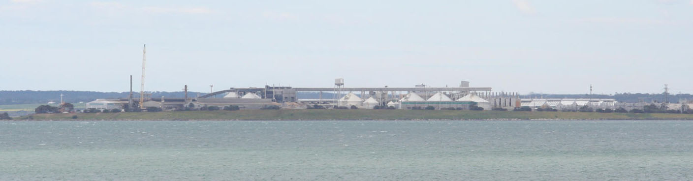 Alcoa's Point Henry smelter - from the other side of Corio Bay - Geelong, Victoria, Australia